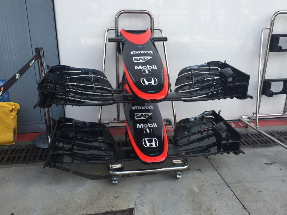 McLaren front wings